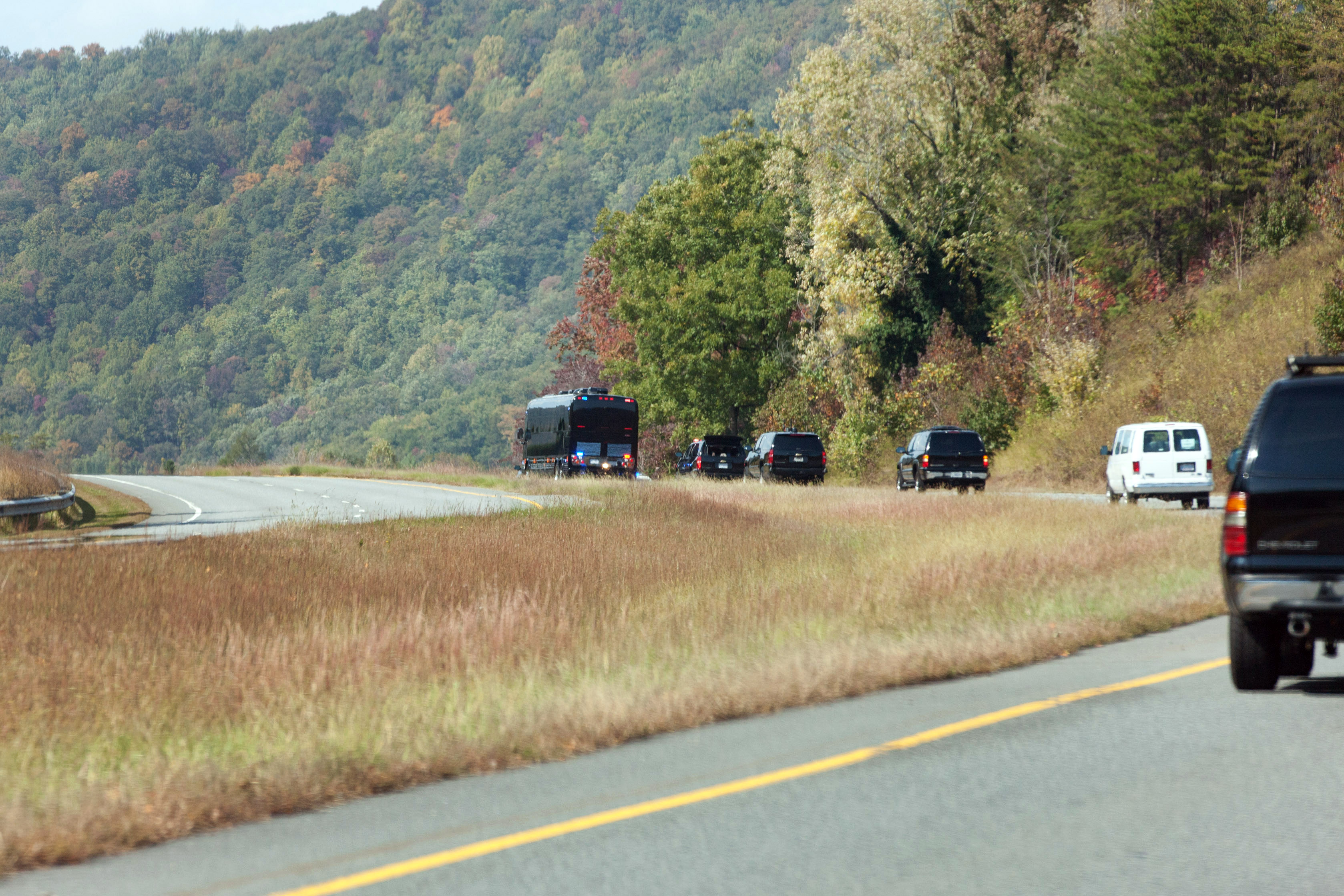 President Barack Obama's bus drives along Highway 321 en route to Boone, N.C., Oct. 17, 2011, during the three-day American Jobs Act bus tour through North Carolina and Virginia to discuss jobs and the economy.